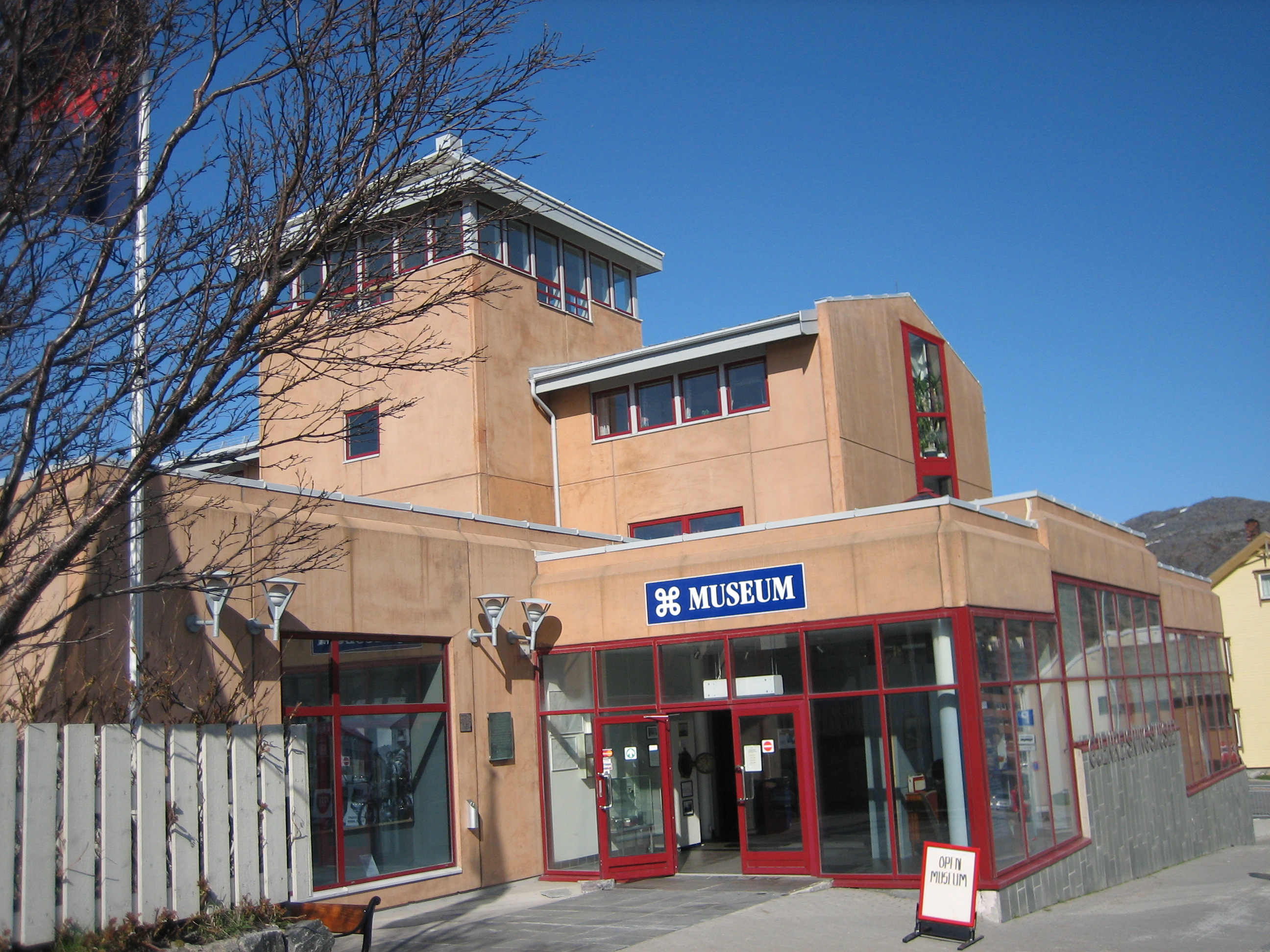 Photo of the Museum of Reconstruction for Finnmark and North Troms, taken by me on Norwegian Constitution Day, 2007